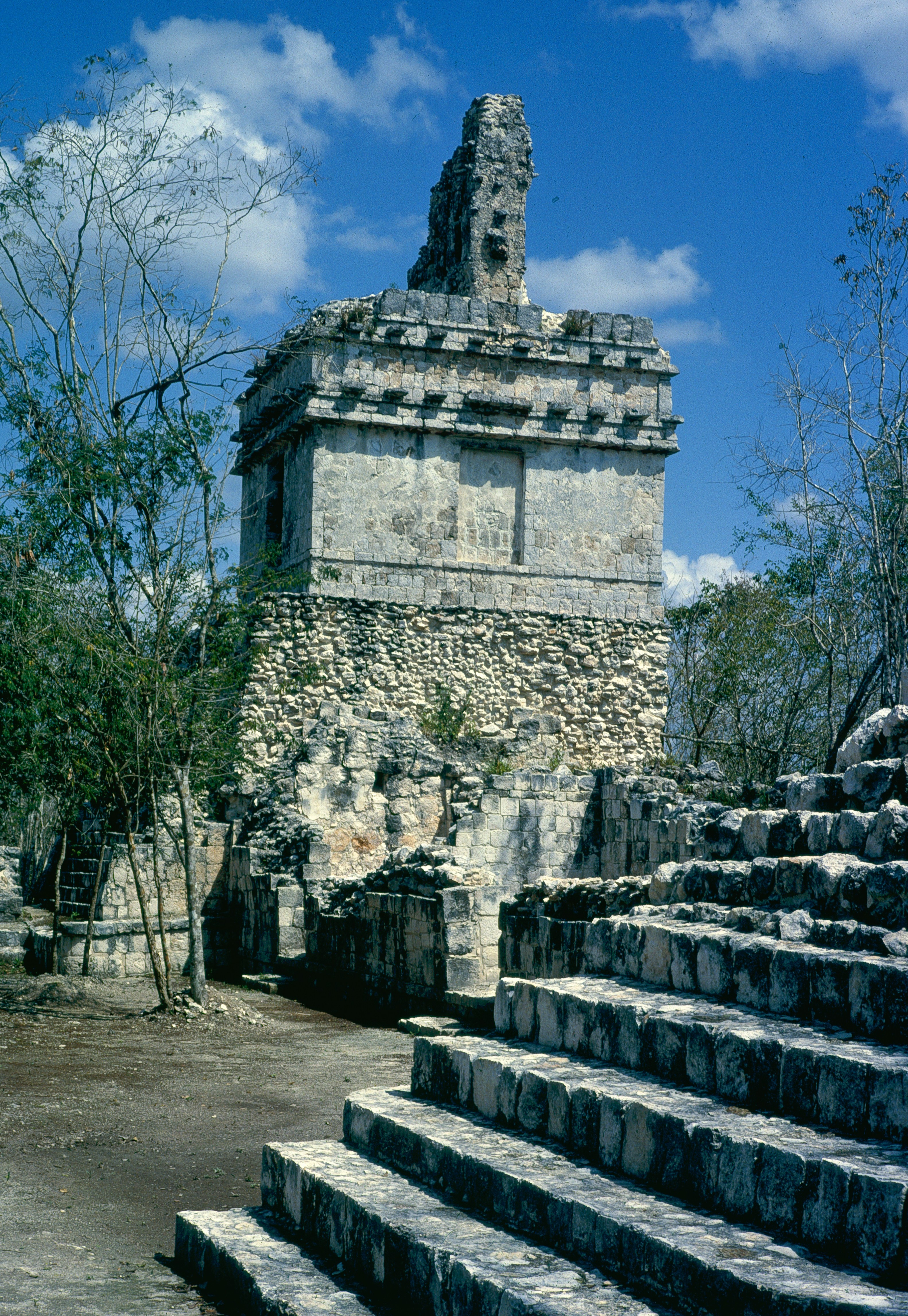 Hochob, Campeche, Mexico: building V